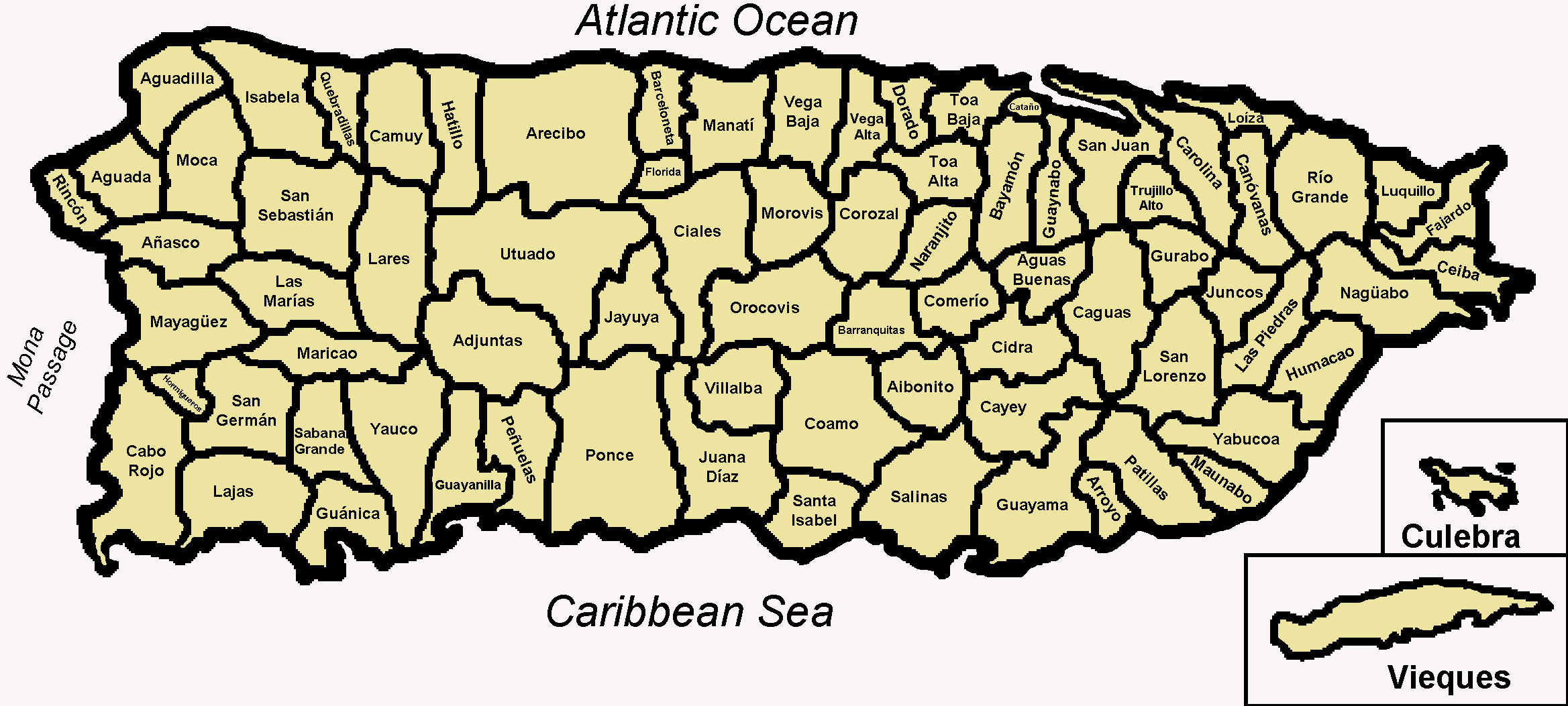 Map of the 78 municipalities of Puerto Rico